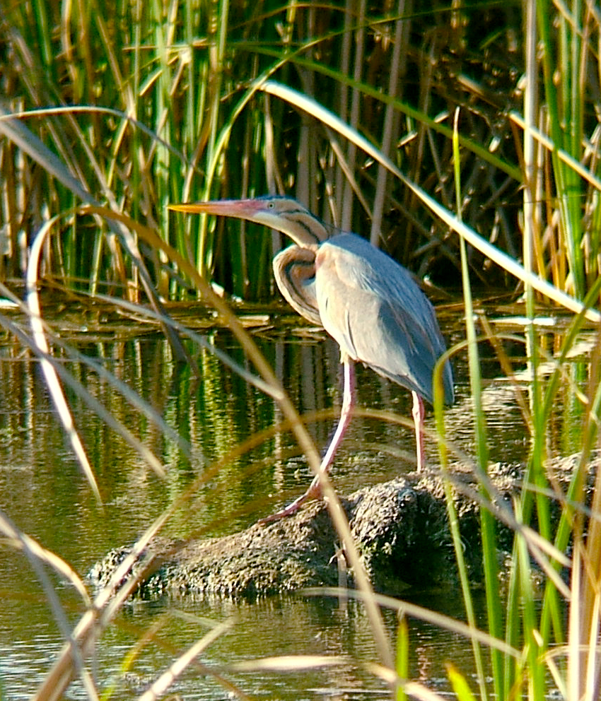 Ardea purpurea, Oued Massa National Park, Morocco, 16 April 2006